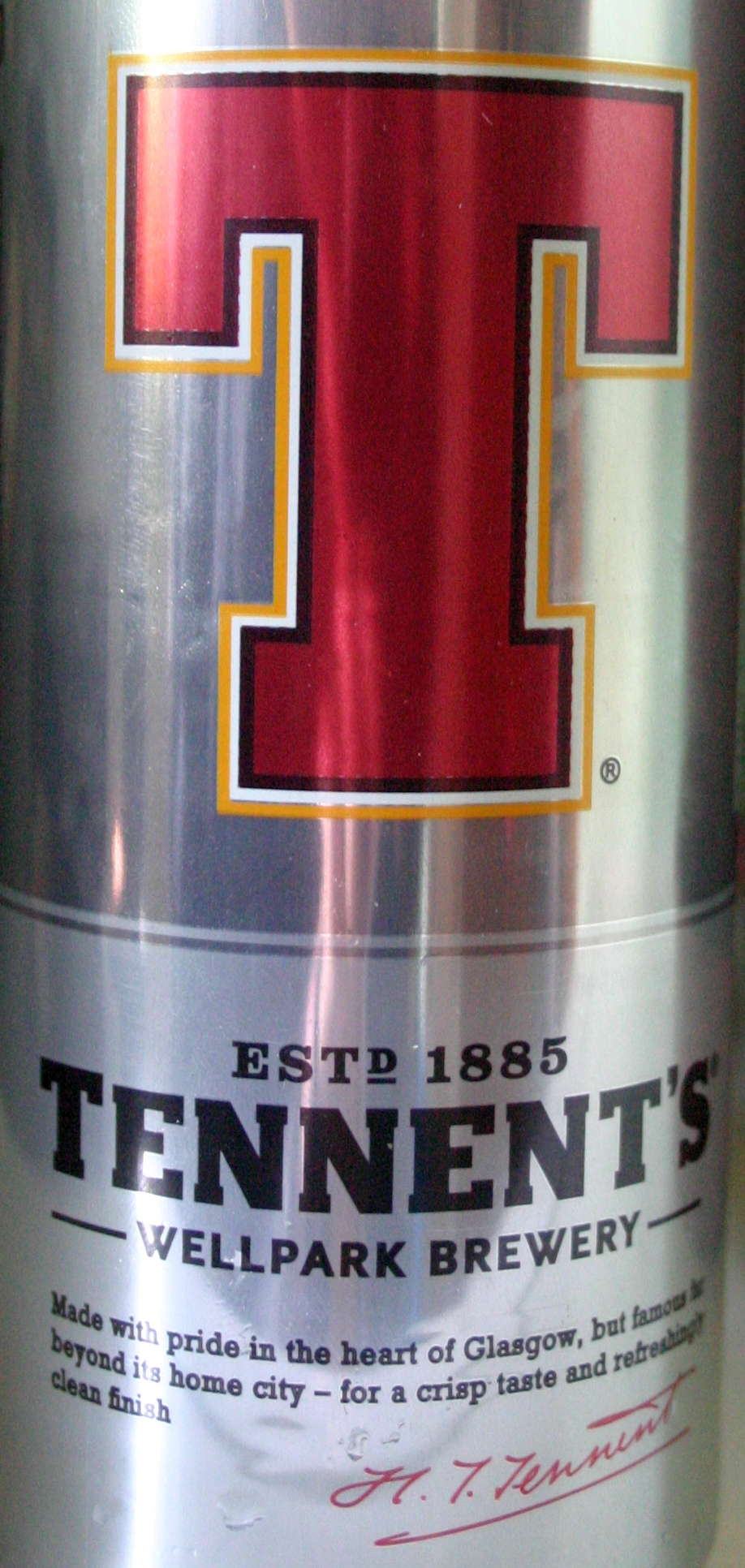 Can of Tennet's lager.